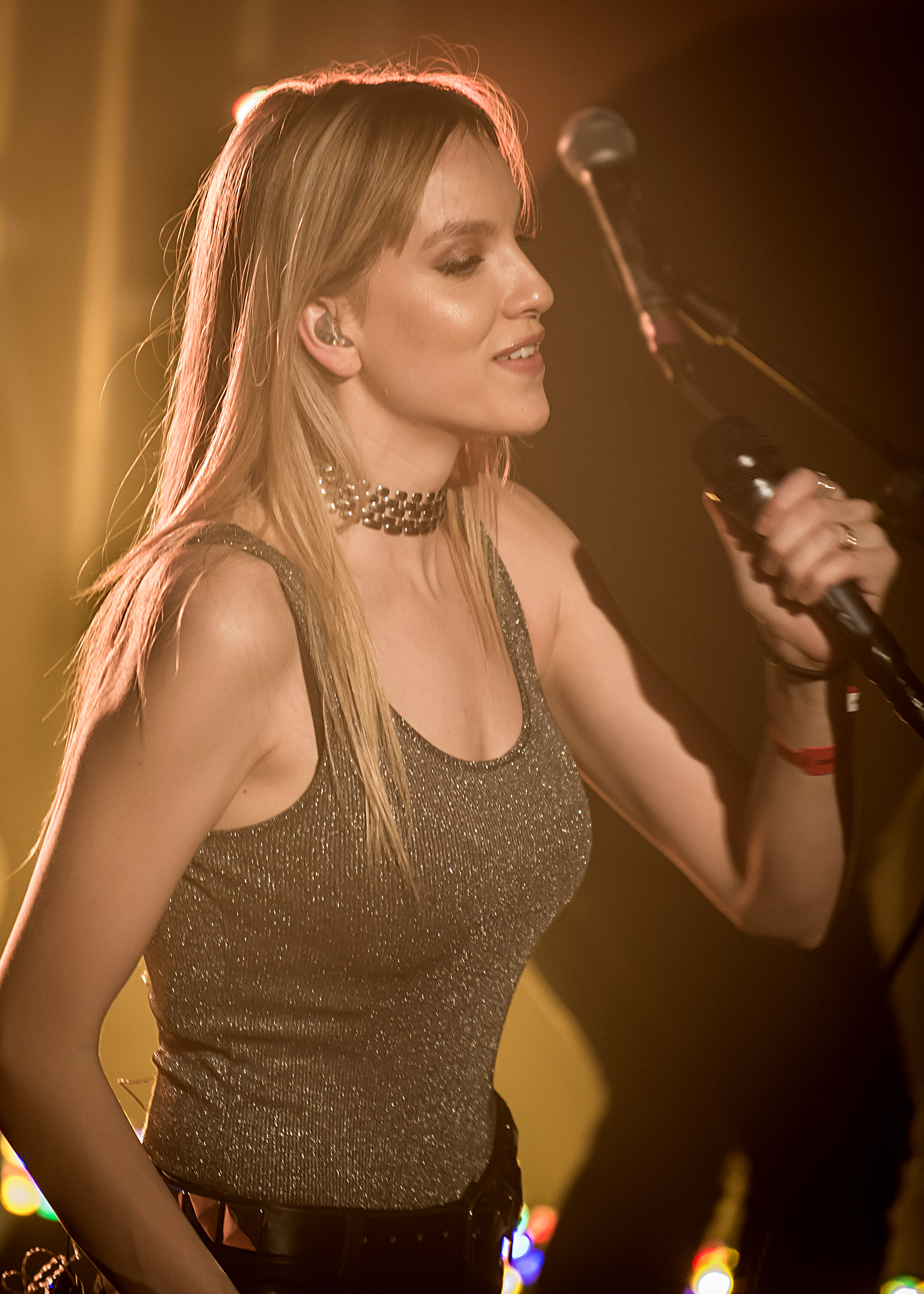 XYLO at The Troubadour